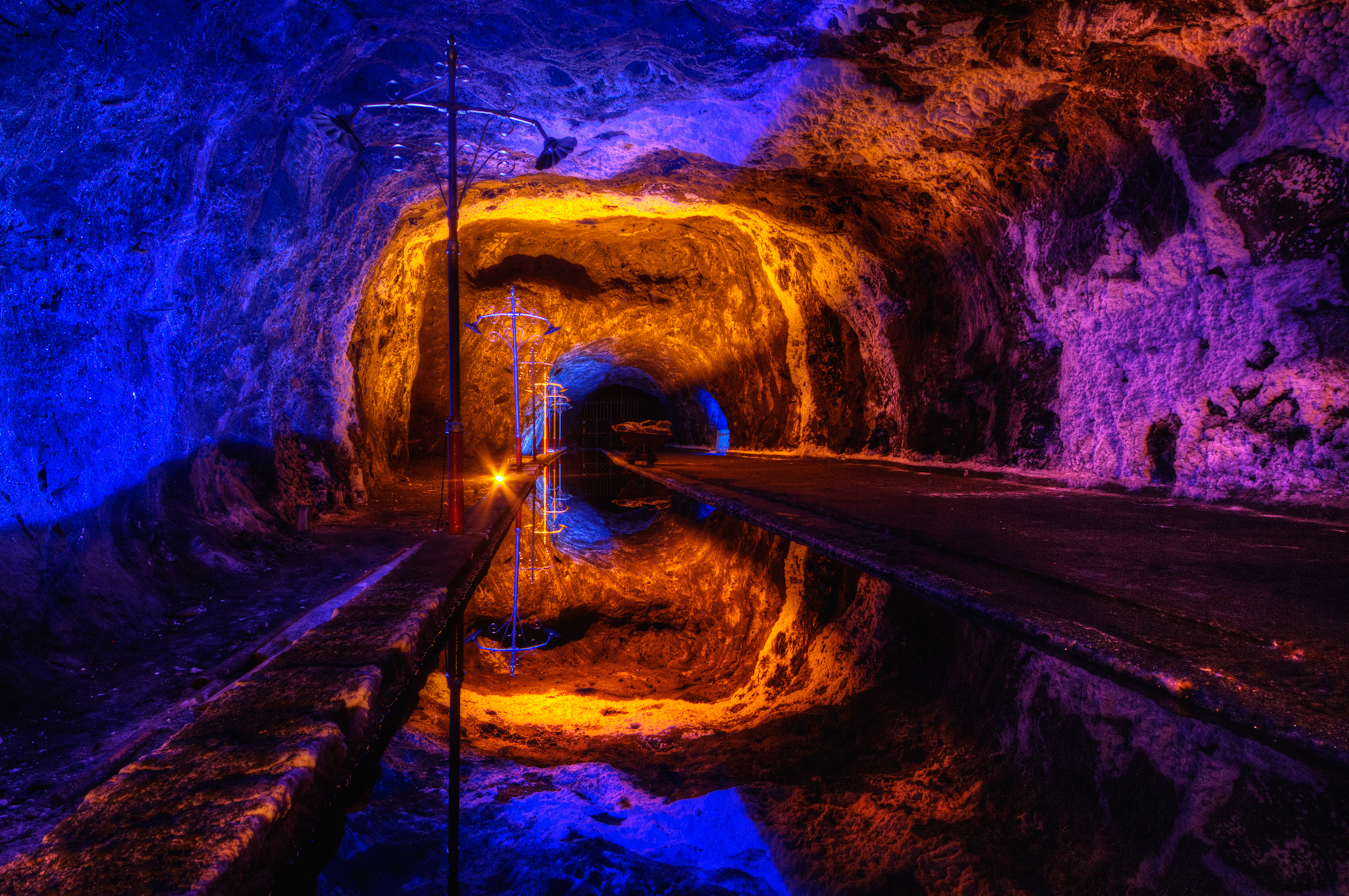 The salt mine in Nemocon, Colombia is definitely worth the visit. The mine was converted into a museum and tourist attractions. They constructed large reflection pools, which give an incredible depth effect. You stand next to the pool and have the feeling that you could take a big fall even though the pool is a foot or so deep. ISO 200, 10mm, f13, (4 shots, 5 to 20 seconds). HDR processing in Photomatix using Details Enhancer. Imagenomics Noiseware noise reduction. In PS: smart sharpen, several curves adjustments in all channels and red and blue channels separately. Dodging and burning. Apologies to my friends for not visiting lately. Spent some time in COlombia and when I got back work had really piled up. Getting back to normal now.